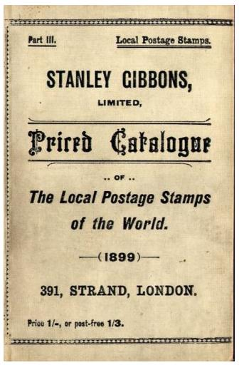 Cover of Stanley Gibbons local stamps catalogue 1899.